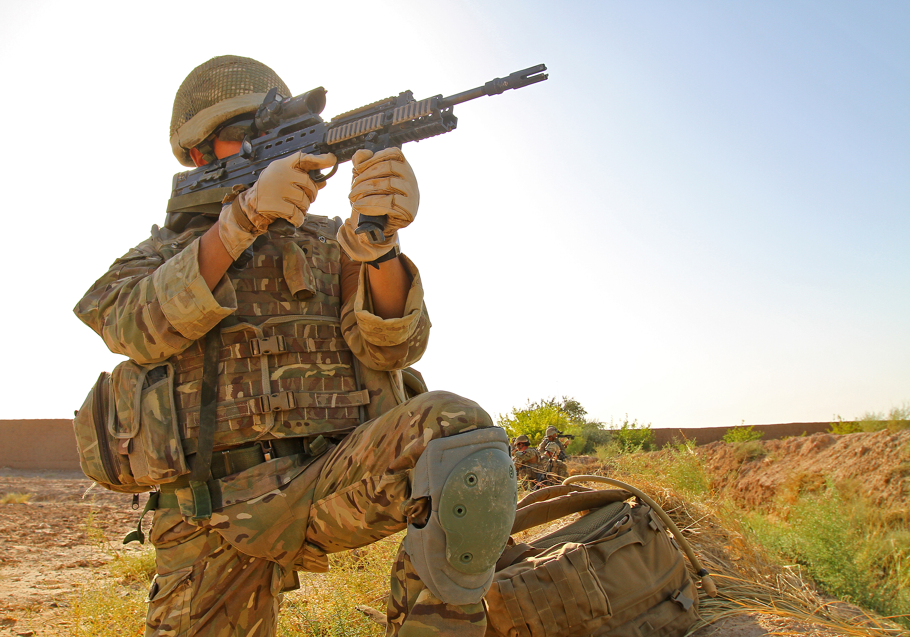 Cpl. Adrian J. Silva, a medic with A Company, The Highlanders, 4th Battalion, The Royal Regiment of Scotland, scans the edge of a field for insurgents before entering a compound in Nahr-e-Saraj District, Helmand province, July 2, during Operation ZMARAY SUK II. The operation aimed to disrupt insurgent activity in an area that had yet to see coalition or Afghan security forces.